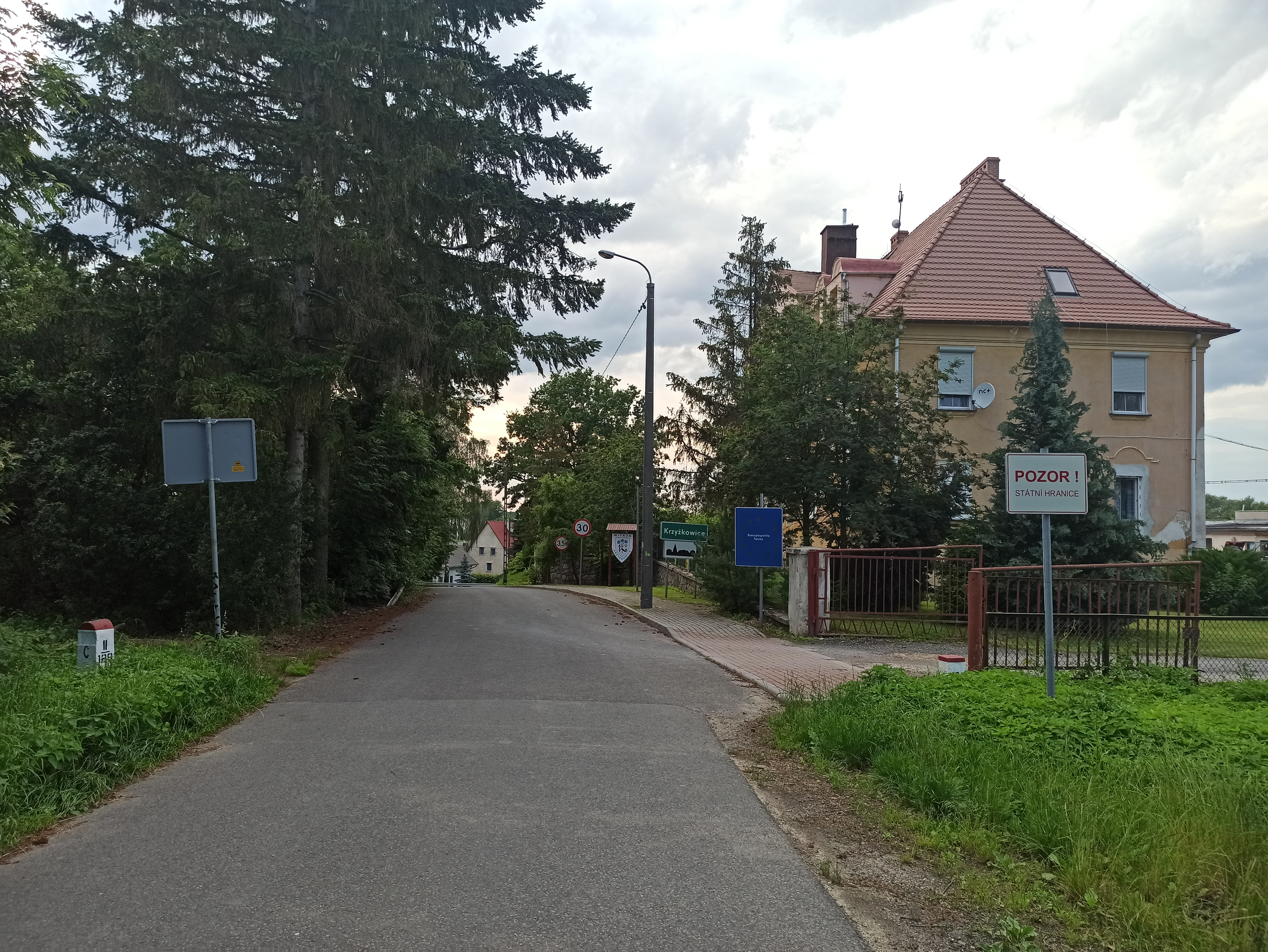 Krzyżkowice-Hlinka border crossing, Poland.